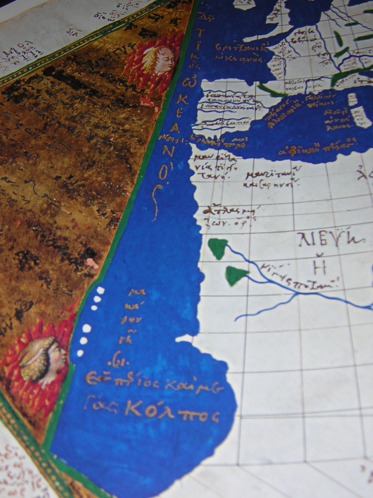 Detail of the Atlantic coast of Africa in the Ptolemy world map. Copy prepared by Giovanni Rhosos for Cardinal Bessarion around 1454.